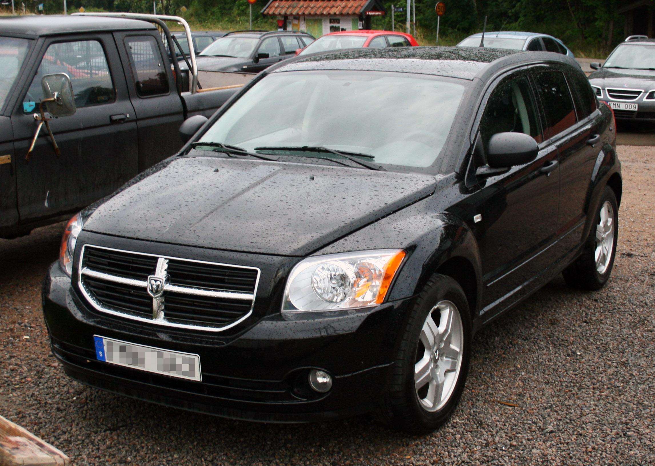 Dodge Caliber